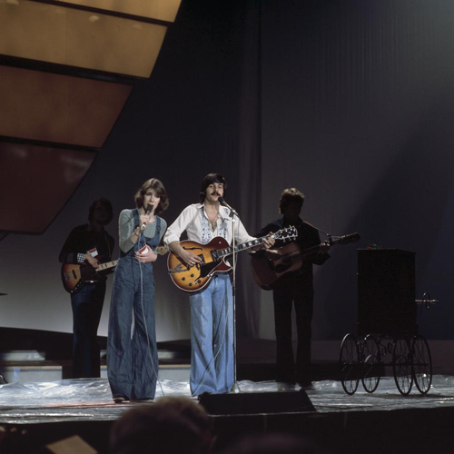 Peter, Sue & Marc at a rehearsal for the Eurovision Song Contest 1976.